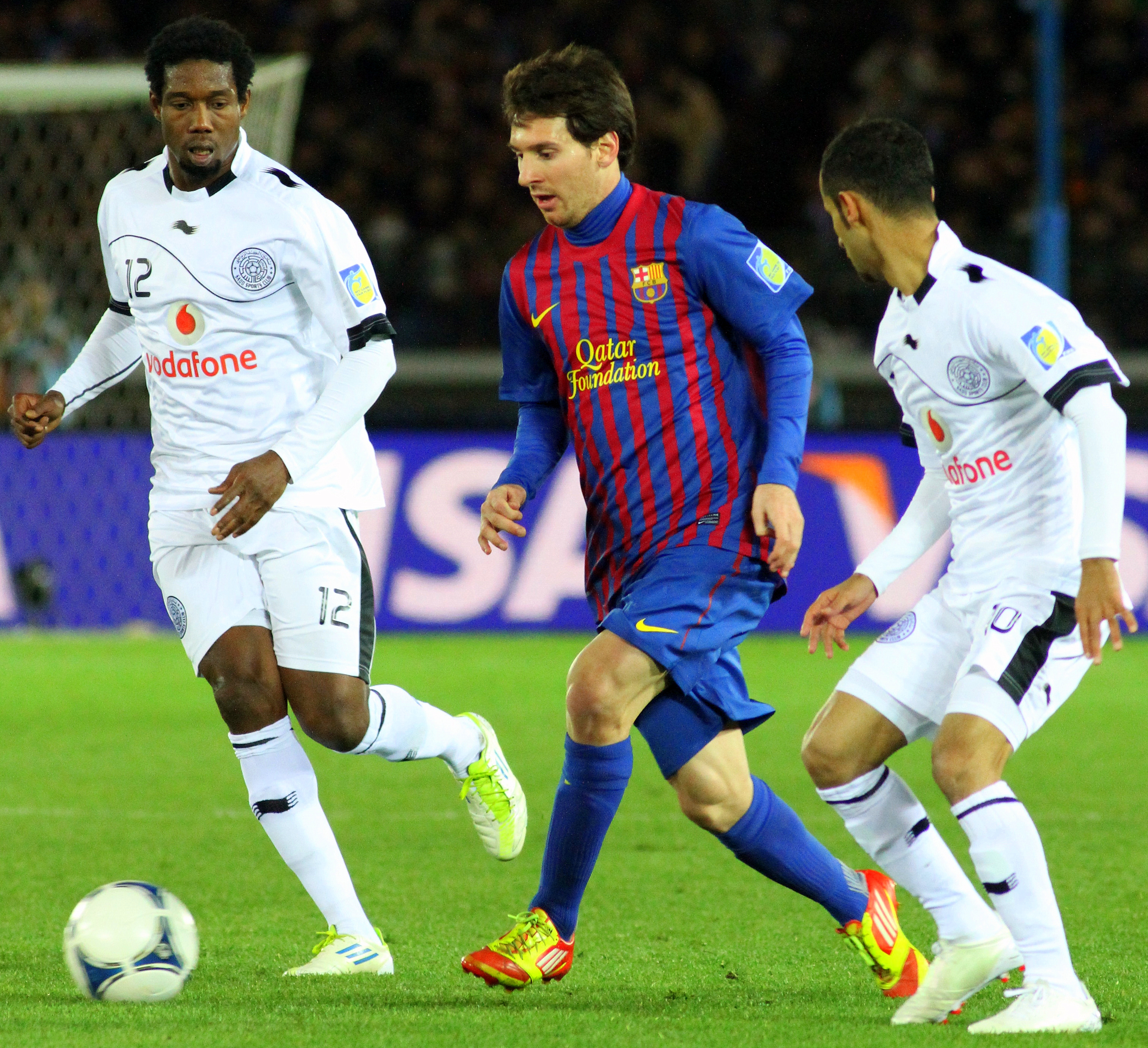 Lionel Messi - FC Barcelona, Santos best 2011.